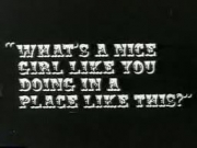 This is a poster for What's a Nice Girl Like You Doing in a Place Like This?.